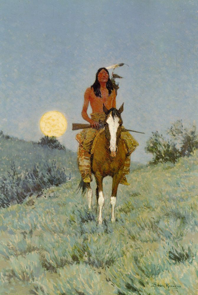 Painting by Frederic Remington (October 4, 1861 - December 26, 1909), The Outlier (1909). Oil on canvas, 40 x 27 inches, The Brooklyn Museum, New York.